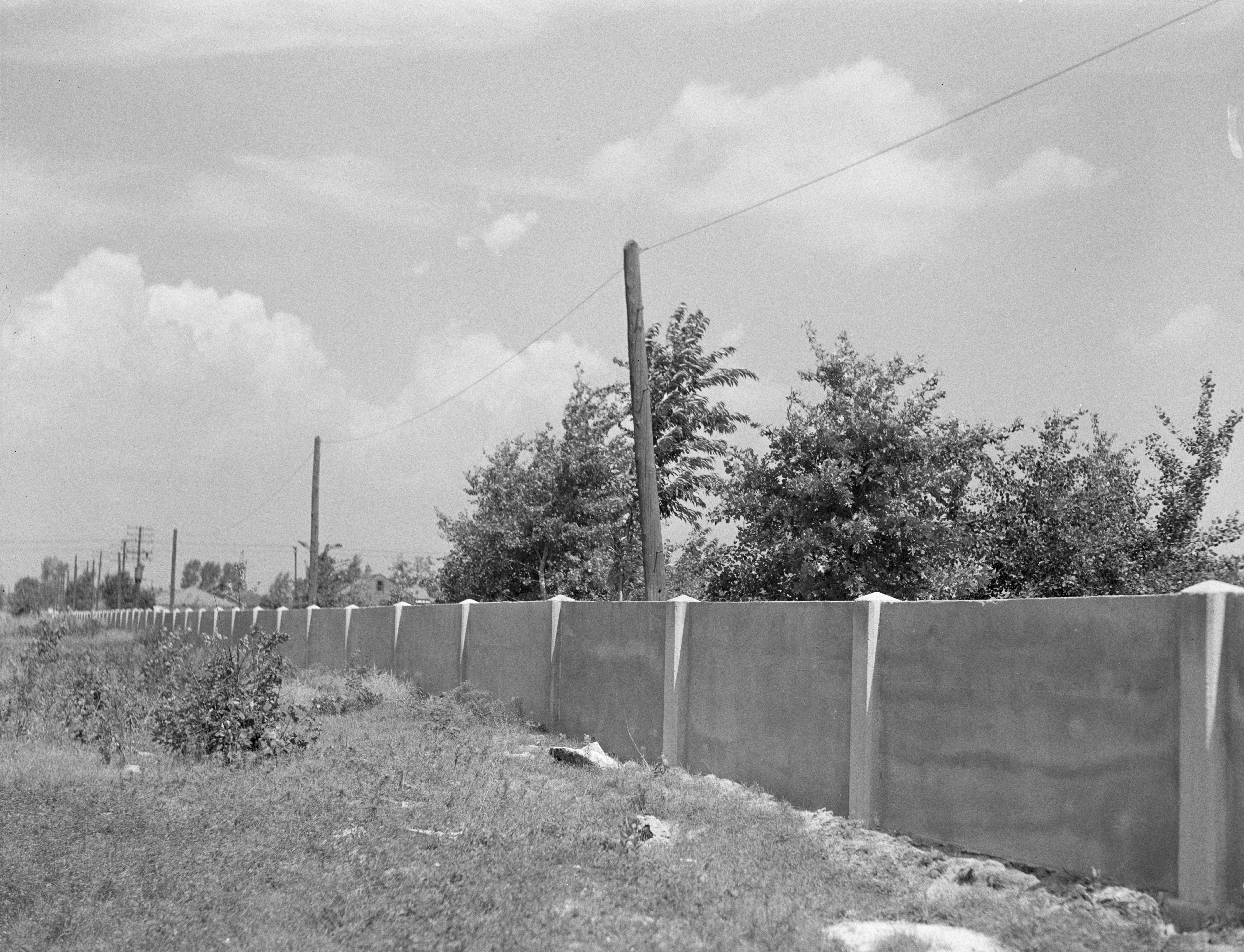 Concrete wall, one half mile long, Detroit, Michigan. This wall was erected in August 1941 to separate the Negro section from a new suburban housing development for whites. (Description from Libray of Congress)